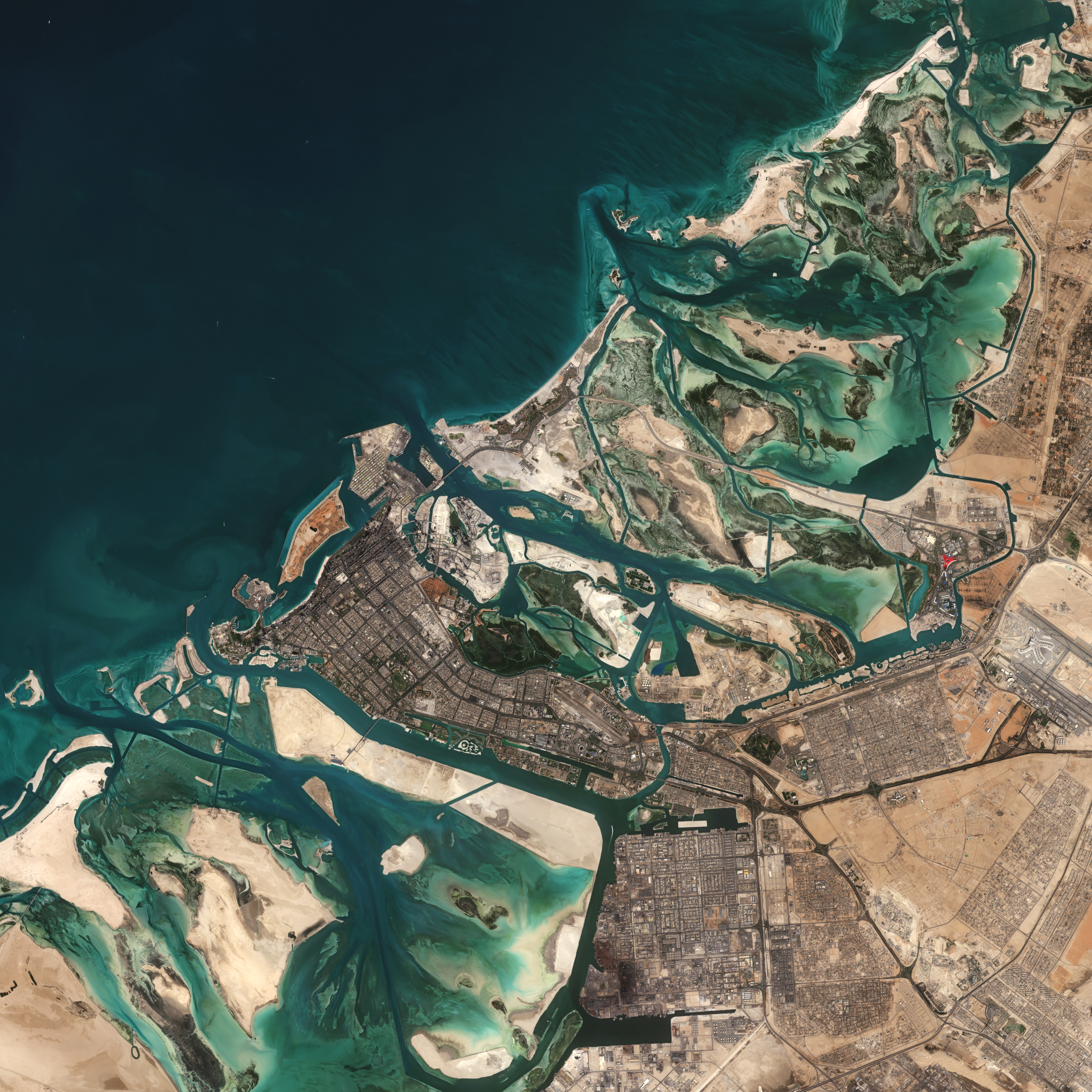 The Copernicus Sentinel-2 mission takes us over part of Abu Dhabi – one of the seven emirates that constitute the United Arab Emirates (UAE). Covering an area of approximately 67 000 sq km, the Emirate of Abu Dhabi is the largest emirate in the UAE – accounting for around 87% of the total land area of the federation. Abu Dhabi has around 200 islands lying along its 700 km long coastline. The city of Abu Dhabi, after which the emirate is named, is located on an island in the Persian Gulf and can be seen slightly below the centre of the image. Abu Dhabi is the capital and the second-most populous city of the UAE – after Dubai. The city is directly connected to the mainland by three bridges: Maqta, Mussafah and Sheikh Zayed. Just east of the city lies the Mangrove National Park, visible as a dark green patch of land. The protected area is around 20 sq km and includes mangrove forests, salt marshes, mudflats and is home to more than 60 bird species. The waters surrounding Abu Dhabi are said to hold the world’s largest population of Indo-Pacific humpback dolphins. The lighter aqua colours are shallow waters, which contrast with the dark coloured waters of the Gulf. The iconic red roof of Ferrari World can be seen in the centre-right of the image. The Ferrari-themed park is located on Yas Island and is said to be the world’s largest indoor theme park. Abu Dhabi International Airport is visible southeast of the park. Sentinel-2 is a two-satellite mission to supply the coverage and data delivery needed for Europe’s Copernicus programme. The mission’s frequent revisits over the same area and high spatial resolution allow changes in water bodies to be closely monitored. This image, captured on 27 January 2019, is also featured on the Earth from Space video programme. Credits: contains modified Copernicus Sentinel data (2019), processed by ESA, CC BY-SA 3.0 IGO